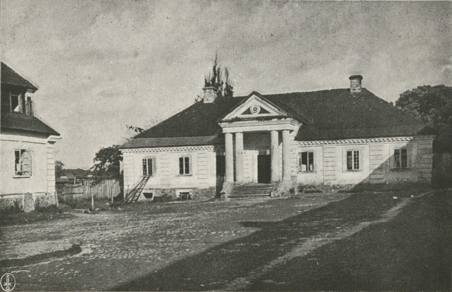 Sapieha Manor in Kosava